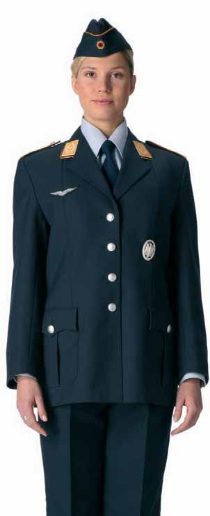 Female Styl Service Dress of the German Armed Forces (Bundeswehr) (Luftwaffe)